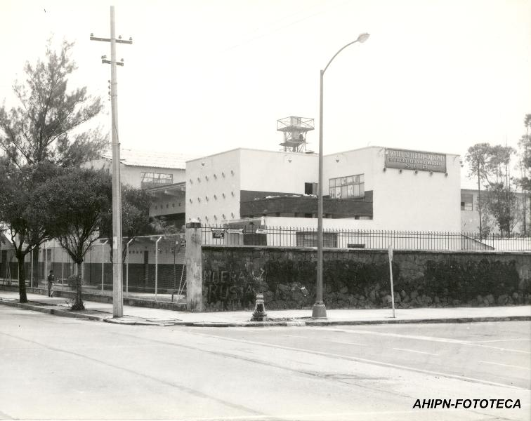 Edificio de El Barco que ocupó la Escuela Superior de Economía como institución independiente entre las calles de Av. Carpio y Av. de los Maestros dentro del Casco de Santo Tomás en la Unidad Profesional Lázaro Cárdenas del IPN